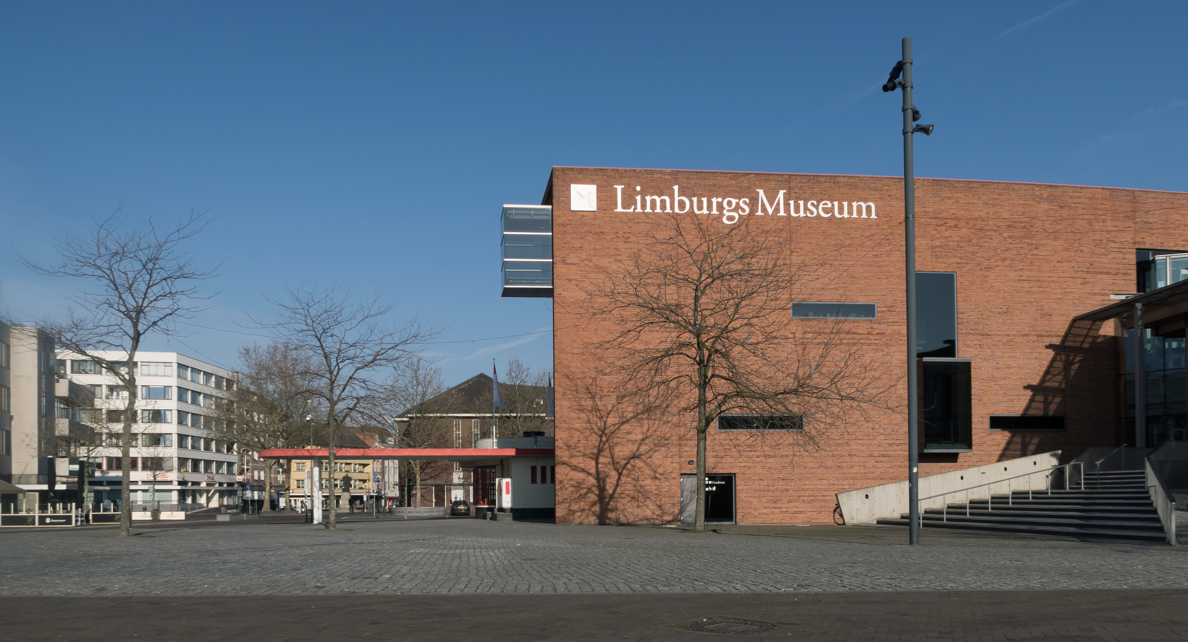 Venlo, the entry to the Limburgs Museum